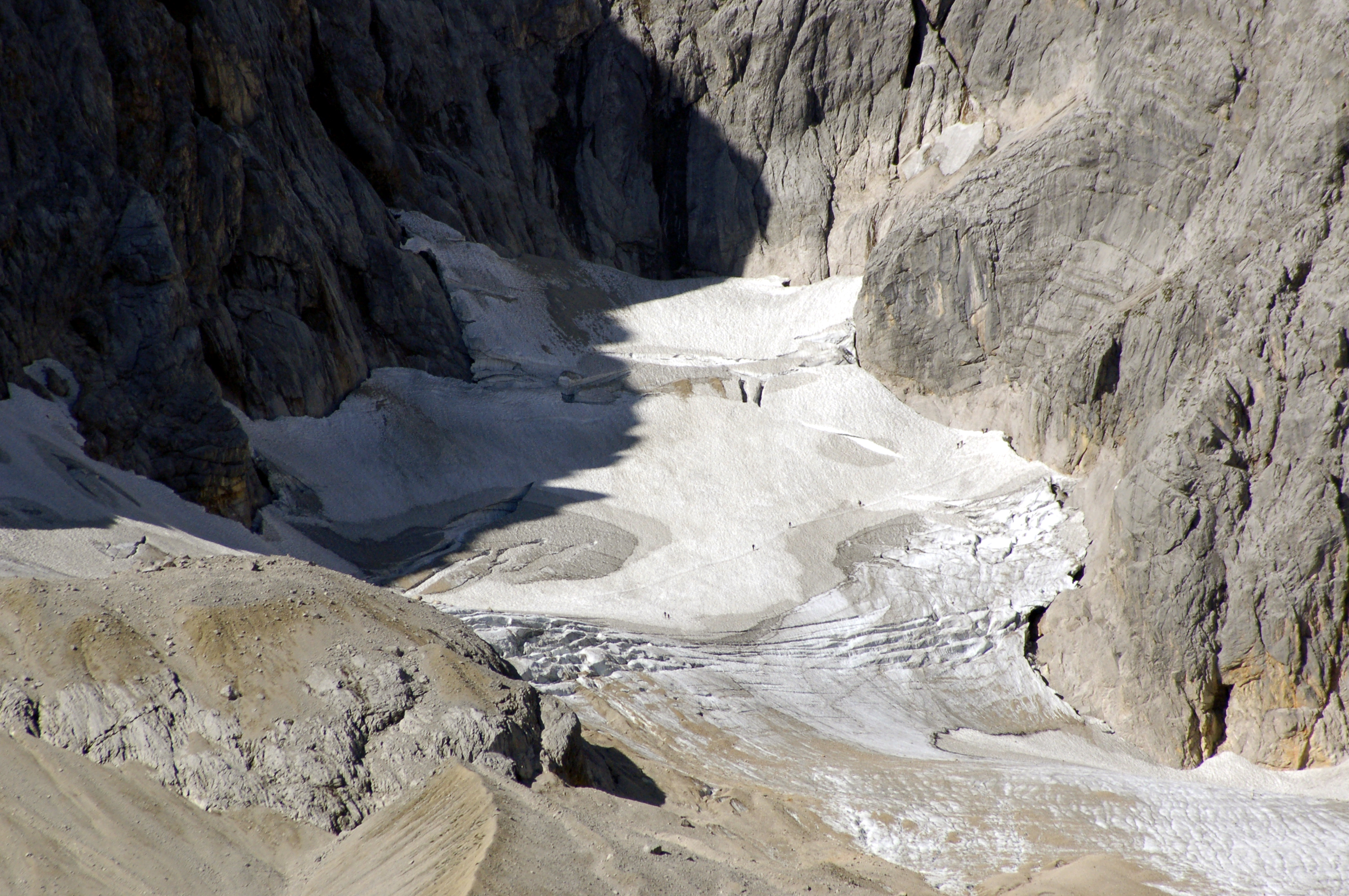 Höllental glacier from northeast (with alpinists).